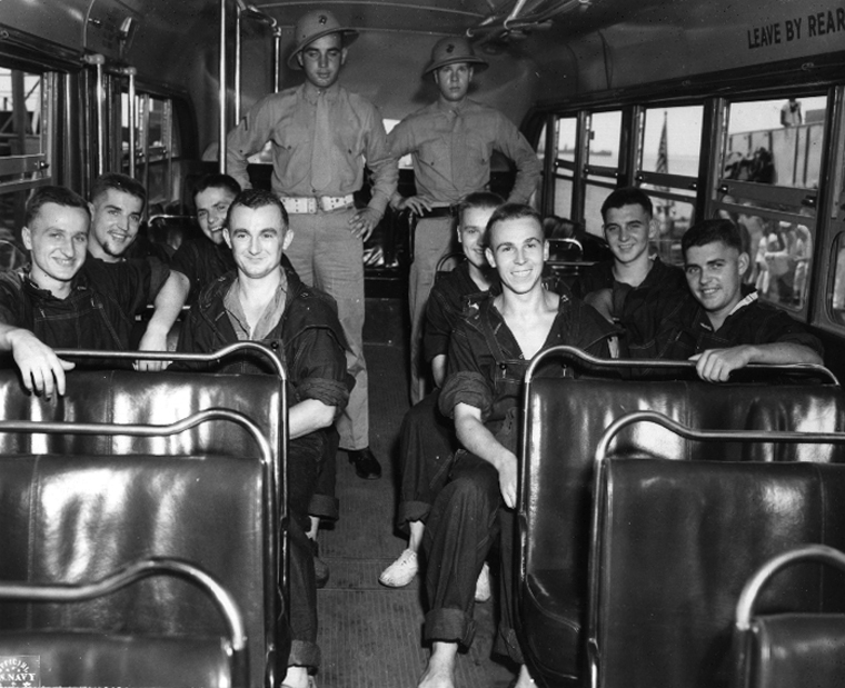 U-118 POWs arrive at NOB Norfolk, Virginia, 20 June 1943 Junior members of U-118's crew aboard the bus that took them to the NOB Norfolk Hospital for physical examination and initial POW processing Back Row (L-R) Werner Drechsler, Paul Reum, Erhard Lenk, Klaus Preuss Front row (L-R) Herman Polowzyk, Gustav Behlke, Walter Schiller, Wilhelm Bort